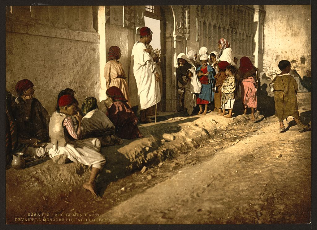 Beggars in front of mosque "Sidi Abderrhaman", Algiers, Algeria